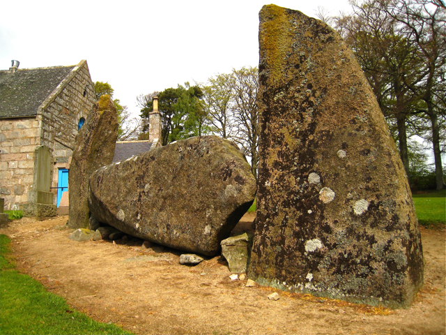 Midmar: Recumbent stone circle in the kirkyard The kirkyard at Midmar contains a recumbent stone circle 17.3m in diameter. Recumbent stone circles, a speciality of the NE of Scotland contain a huge recumbent stone with two flankers and several other stones, in this case five. The two flankers, each c2.5m high, flank a massive recumbent which weighs some 20 tons. The present church was built in 1797 when the old church near Midmar was pulled down . The old graveyard continued in use until 1914 when the new one was laid out around the stone circle.